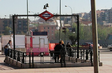 Ventas' underground station entrance next to Alcalá street and Ventas Bridge.